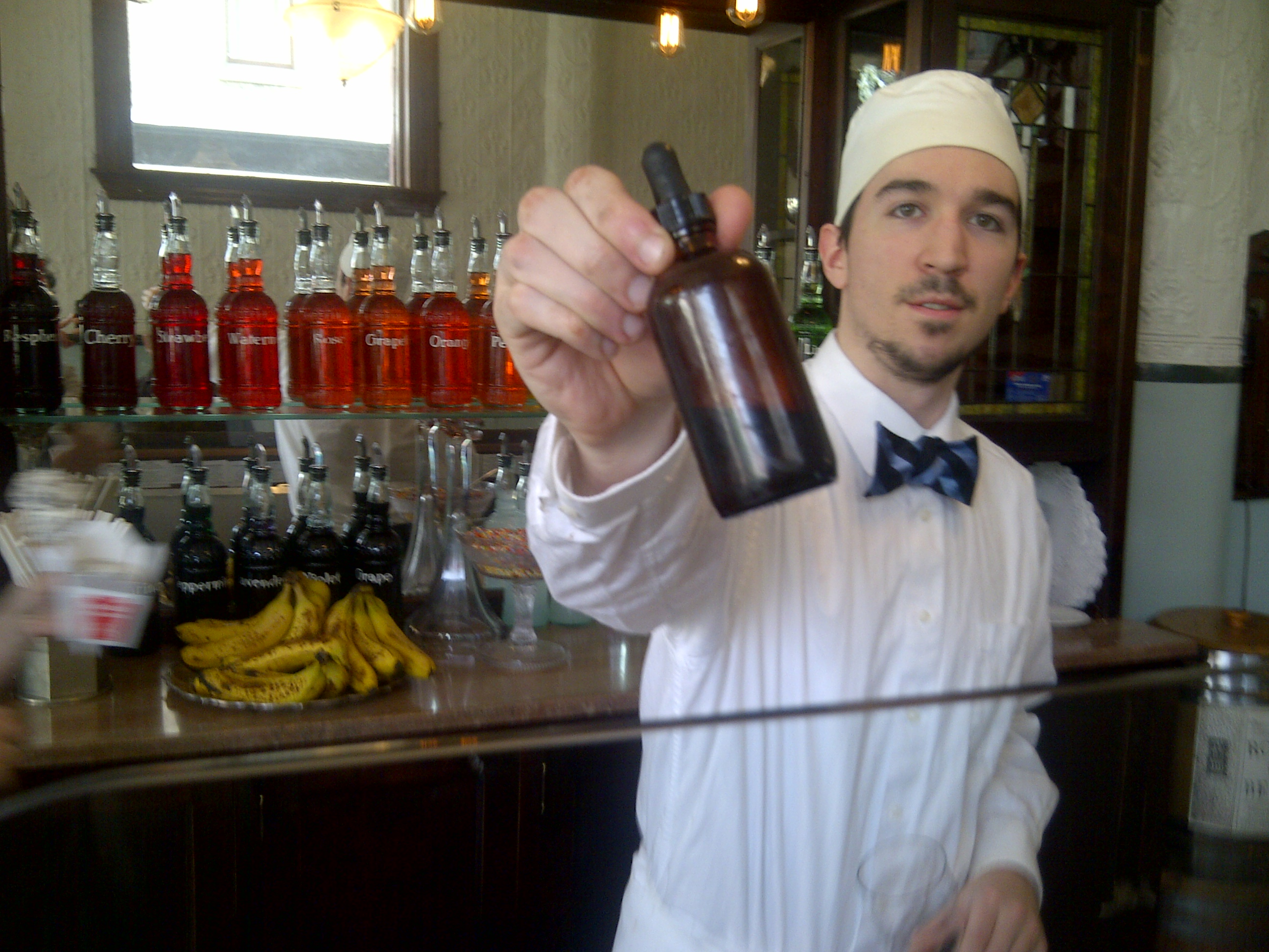 A soda jerk at Franklin Fountain in Philadelphia, Pennsylvania, USA, holds out his bottle of phosphate (phosphoric acid).